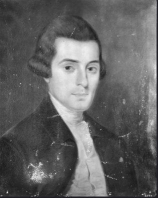 George Steuart Hume, son of the planter and politician George Hume Steuart